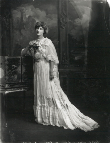 Studio portrait of e (1869-1950), standing, facing left.